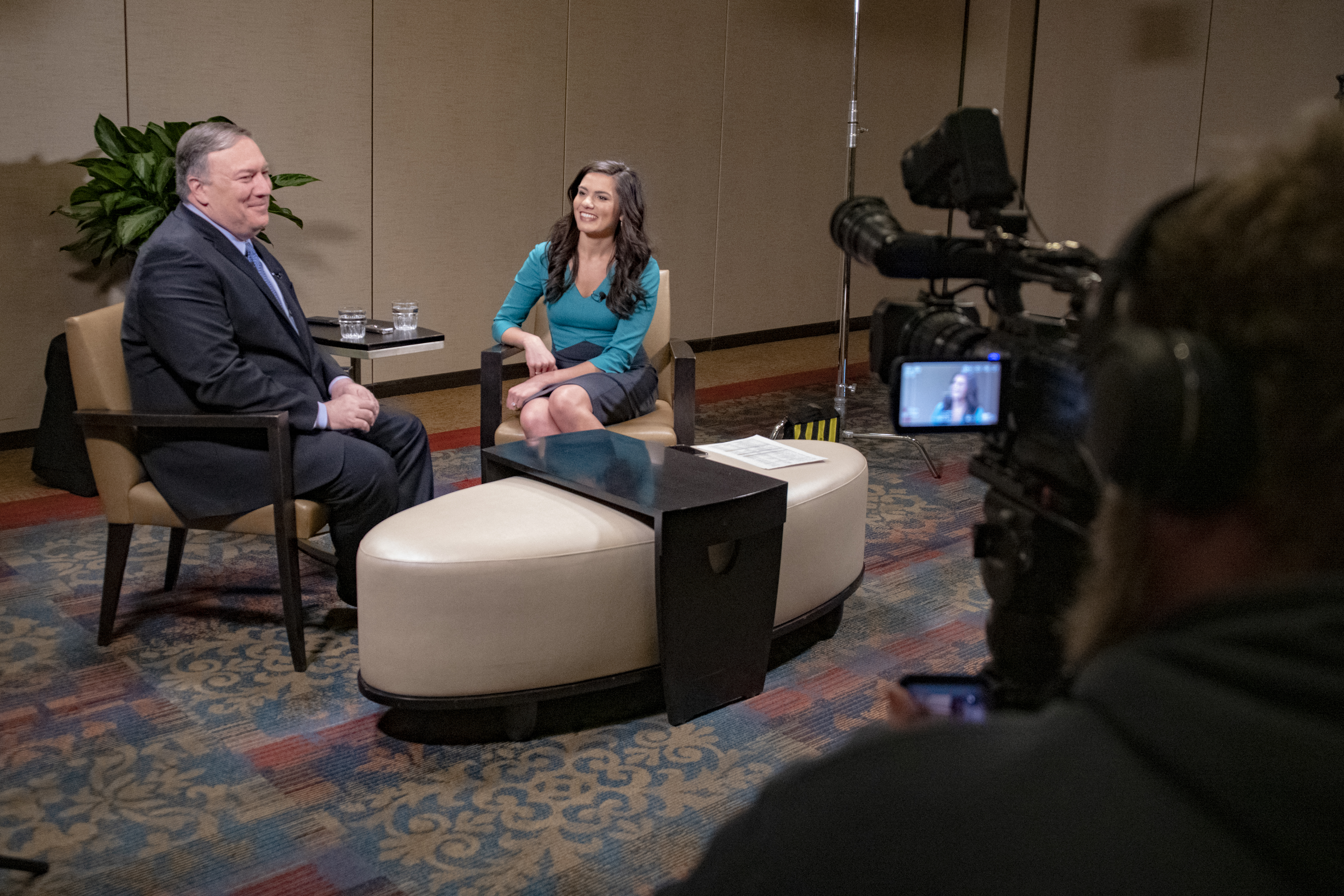 U.S. Secretary of State Michael R. Pompeo participates in an WOI TV interview with Sabrina Ahmed in Des Moines, Iowa on March 4, 2019. [State Department photo Ron Przysucha/ Public Domain]